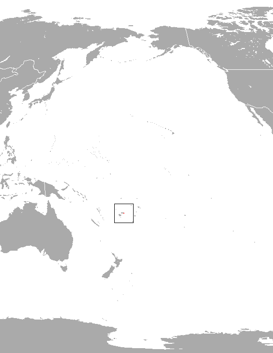 Fijian Monkey-faced Bat (Mirimiri acrodonta) range. IUCN: Mirimiri acrodonta (Hill & Beckon, 1978) (old web site) (Critically endangered) Note: Syn. to Pteralopex acrodonta Hill & Beckon, 1978This species has recently been placed in its own genus, Mirimiri (Helgen 2005). It was previously considered to belong to Pteralopex.